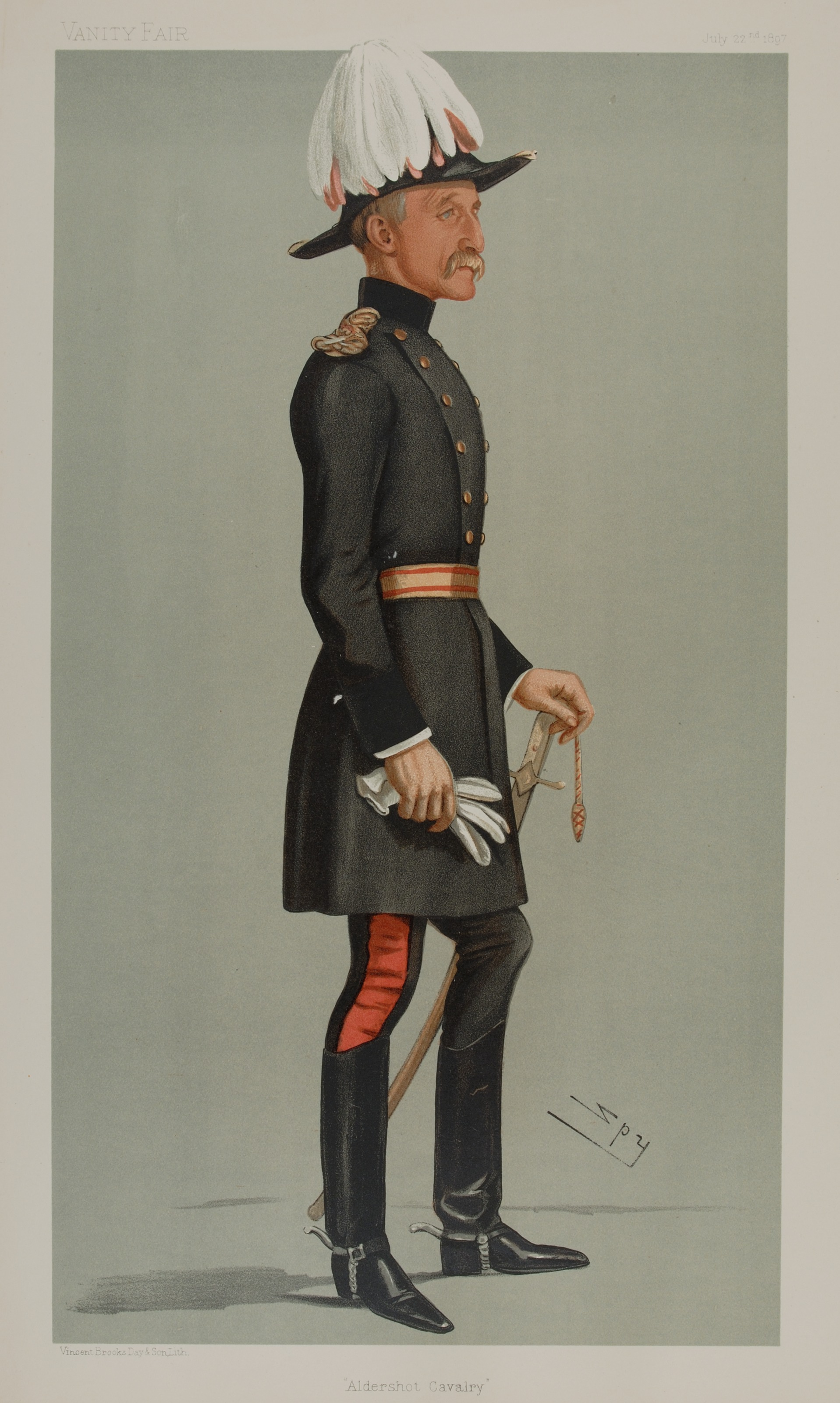 Caricature of Sir Reginald Arthur James Talbot, KCB. Caption reads Aldershot Cavalry.